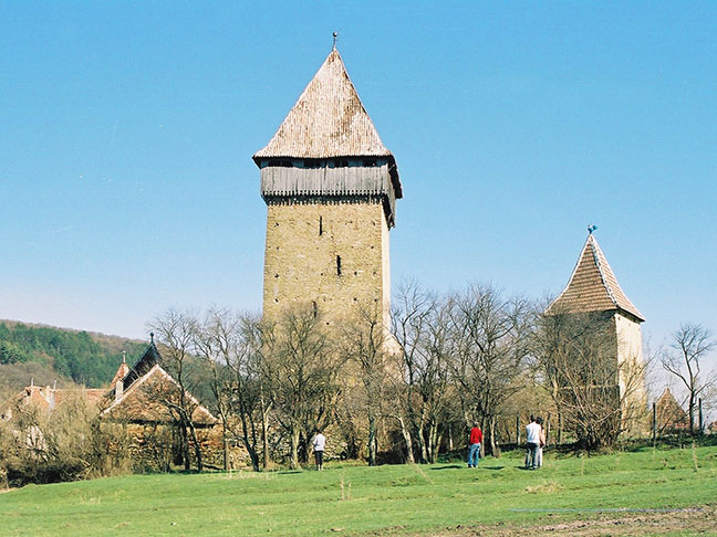 Fortress church of Iacobeni, Romania